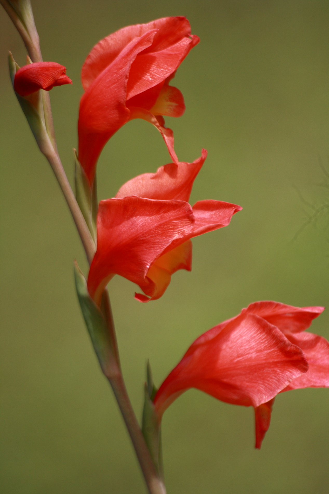 Gladiolous Dalenii blooming in cultivated garden.